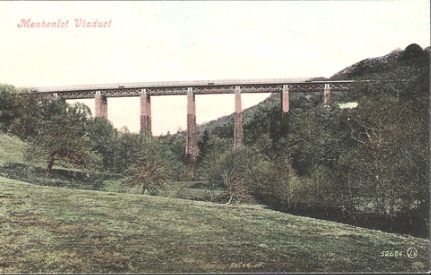 Trevido Viaduct near Menheniot Cornwall